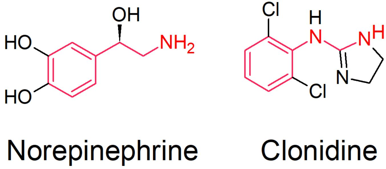 A side-by-side comparison of the chemical structures of the neurotransmitter norepinephrine and the drug clonidine.